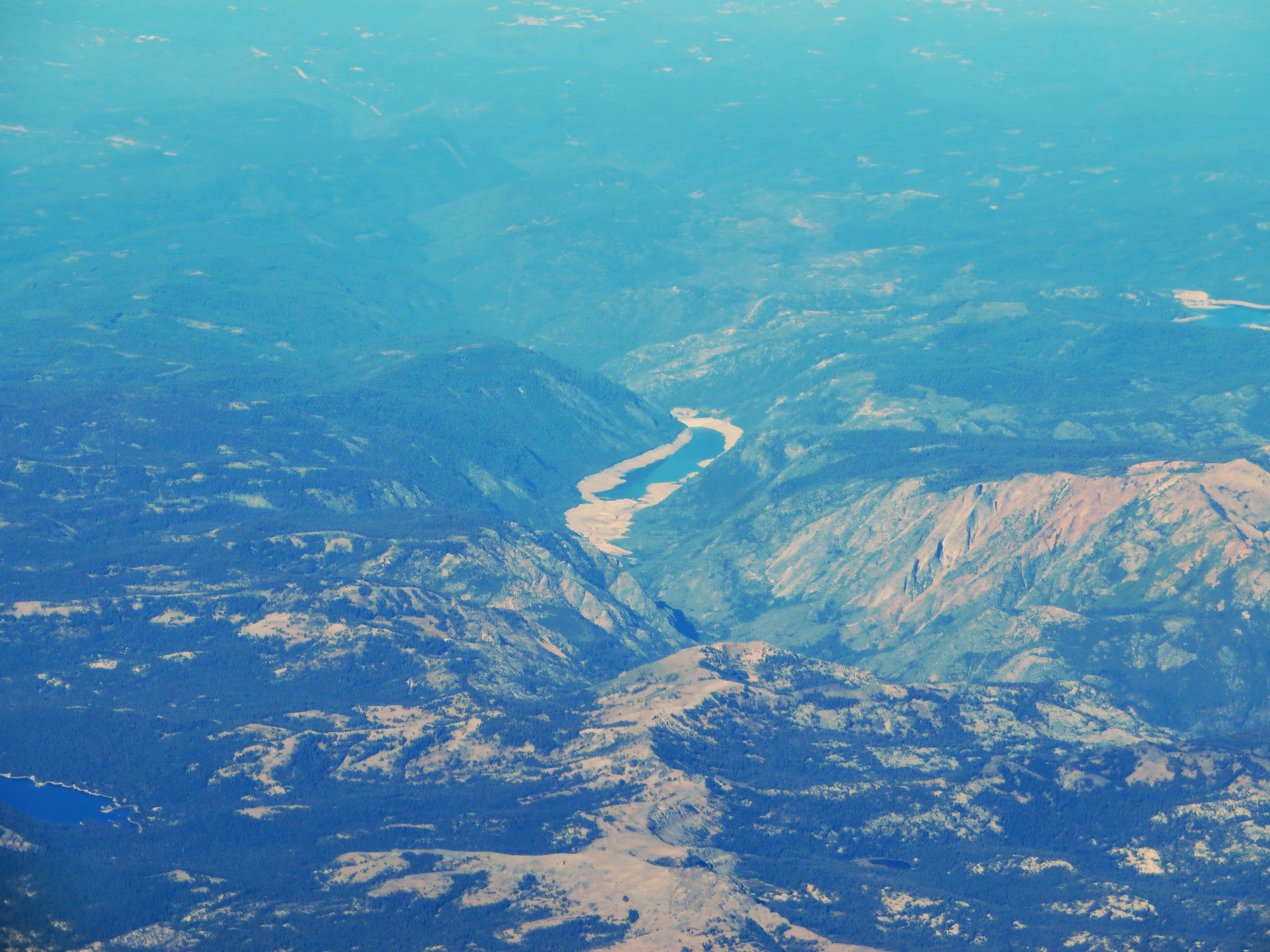 Salt Springs Reservoir is a reservoir in the eastern portions of Amador County and Calaveras County of California in the Sierra Nevada about 30 miles (48 km) east-northeast of Jackson. The reservoir is in the El Dorado National Forest at an elevation of 3,900 feet (1,200 m). The 141,900 acre foot (175,000,000 m3) reservoir is formed by Salt Springs Dam on the North Fork of the Mokelumne River. The concrete-faced rock-fill dam is 332 feet (101 m) tall and was completed in 1931. It is owned by Pacific Gas and Electric and its sole purpose is hydroelectricity production, though limited recreation is available. A short pipeline from the reservoir conveys water to the 44 MW Salt Springs Powerhouse. Some of the water is returned to the river downstream, but much of it flows into the Tiger Creek Conduit, a concrete flume that moves water downstream for use in other powerhouses in PG&E's Mokelumne River Project (FERC Project 137). The dam has a history of settlement problems caused by poor consolidation of the rocks during construction. The concrete face has been cracked many times by the movement, causing leaks. The surface of the dam consists of cracks, craters and shotcrete overlays. It was decided to use a flexible geomembrane to cover the portions of the dam with the greatest leakage. The installation of the membrane was completed in 2005.